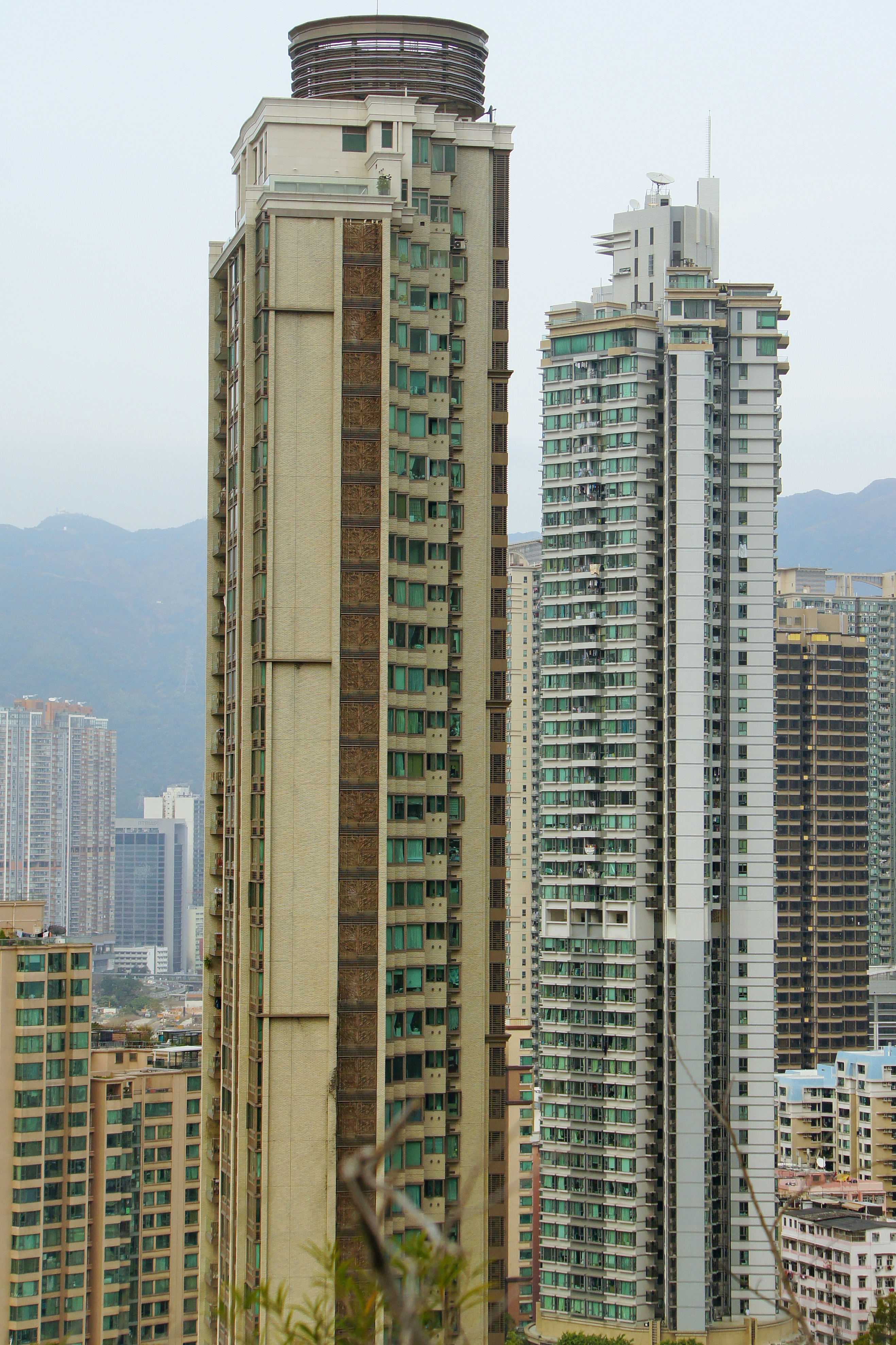 18 Farm Road (right) and Celestial Heights (left), Ho Man Tin, Kowloon, Hong Kong.